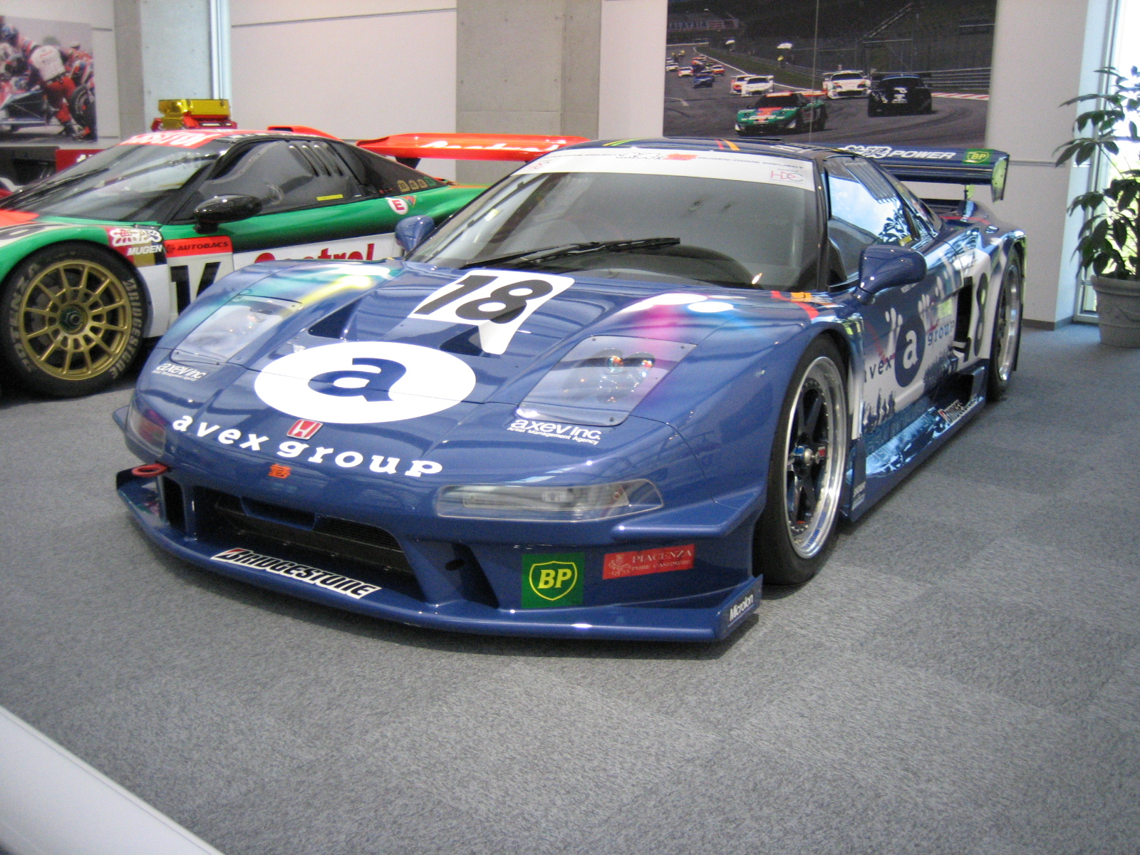 I photoed NSX-avex GTracecar in the Honda collection hole.